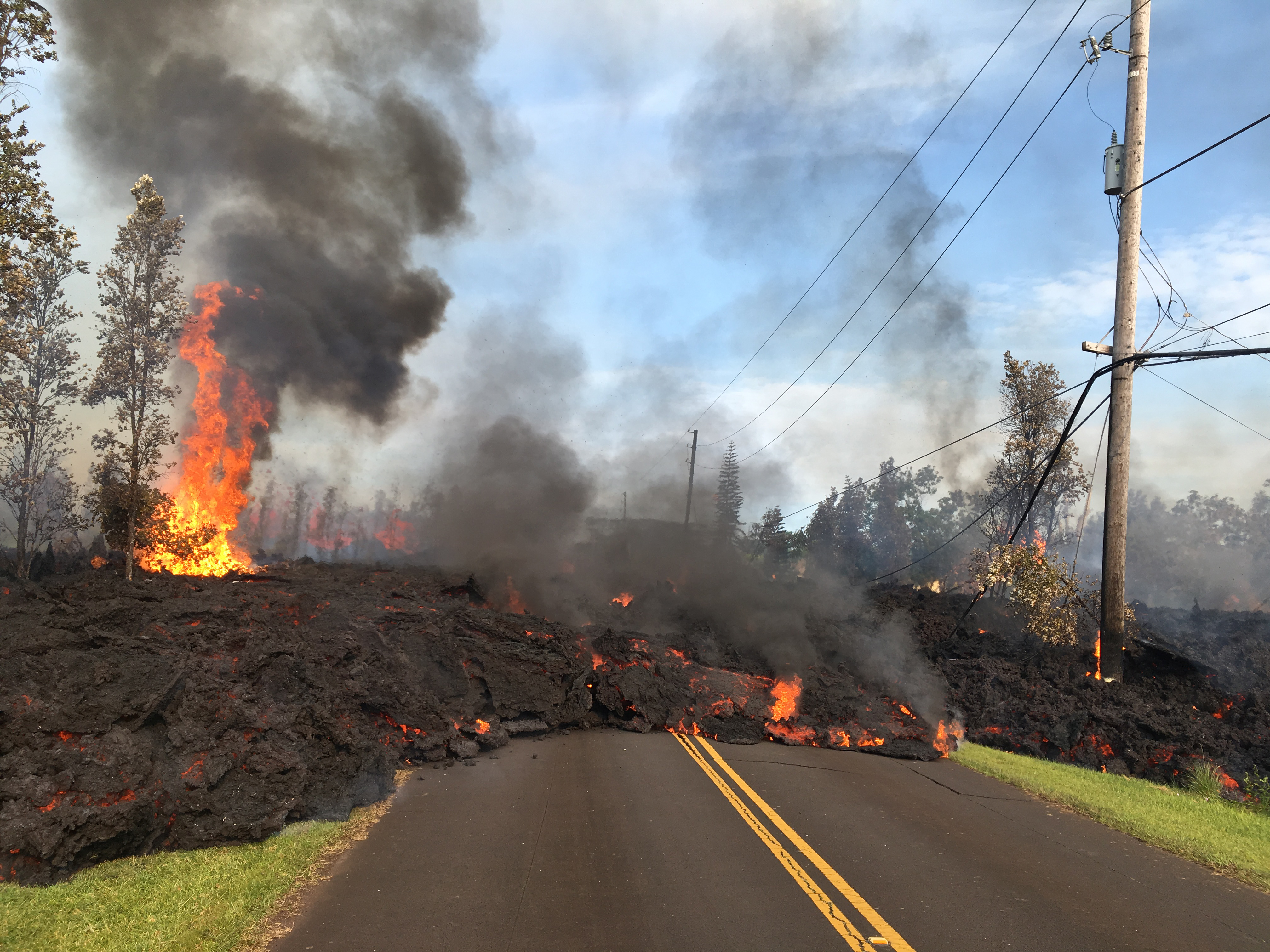 At 07:45 a.m. local time on 5/5/18, lava from a fissure slowly advanced to the northeast on Hoʻokupu Street in Leilani Estates subdivision on Kīlauea Volcano's lower East Rift Zone.